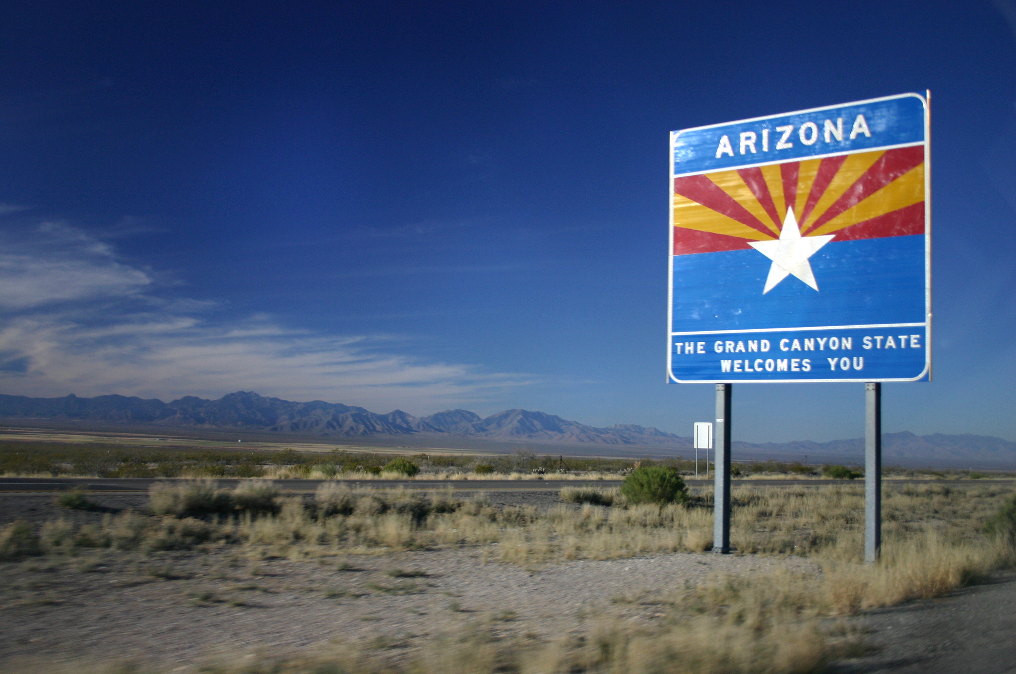 Entering Arizona on I-10 from New Mexico (westbound traffic). The Grand Canyon State Welcomes You.